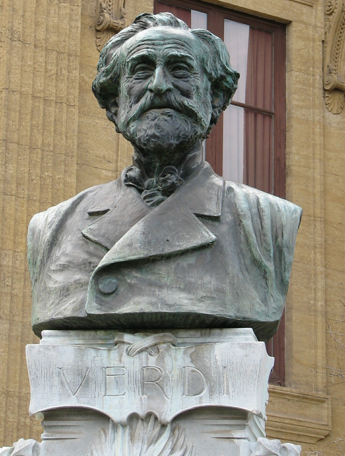 Bust of Giuseppe Verdi outside the Teatro Massimo in Palermo, Italy. The original was sculpted by Antonio Ugo, 1902. The base is by Ernesto Basile.